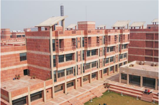 building of SIUPA